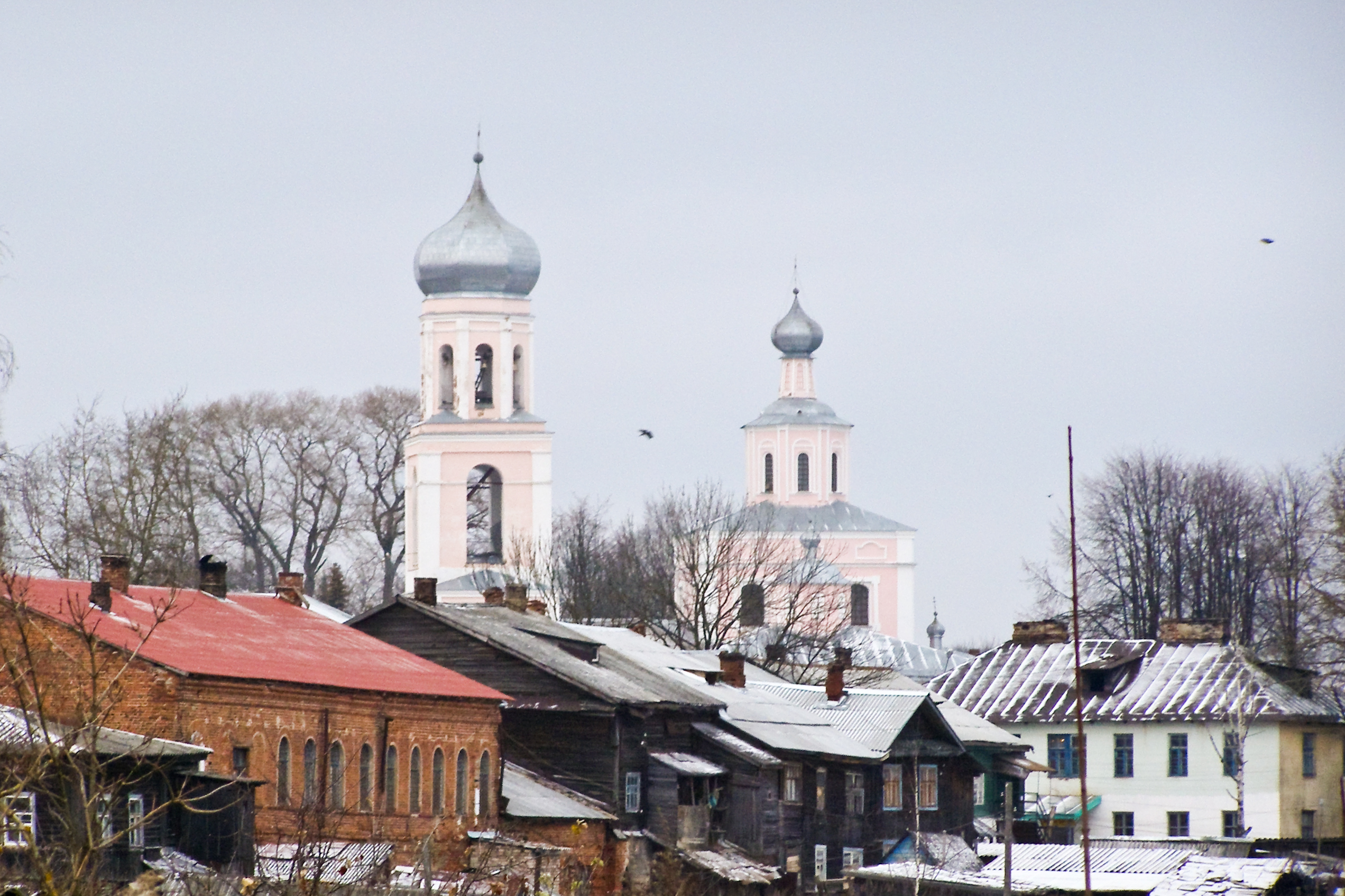 The Holy Trinity Cathedral in Valdai City, Russia.